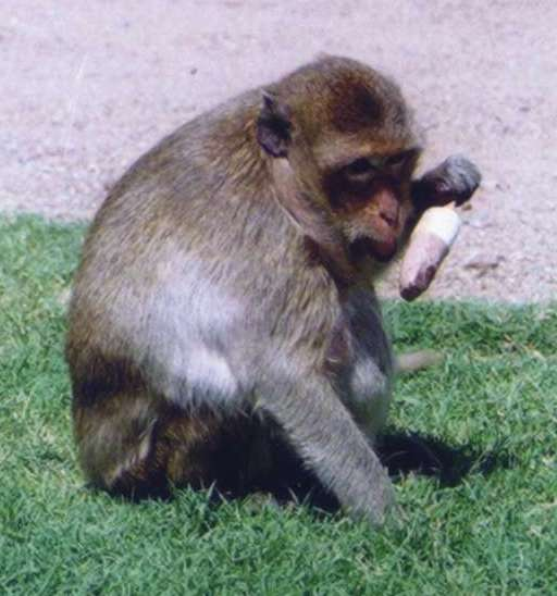 A Crab-eating Macaque at the Khmer sanctuary Prang Sam Yod in Lopburi, Thailand, eating ice-cream.